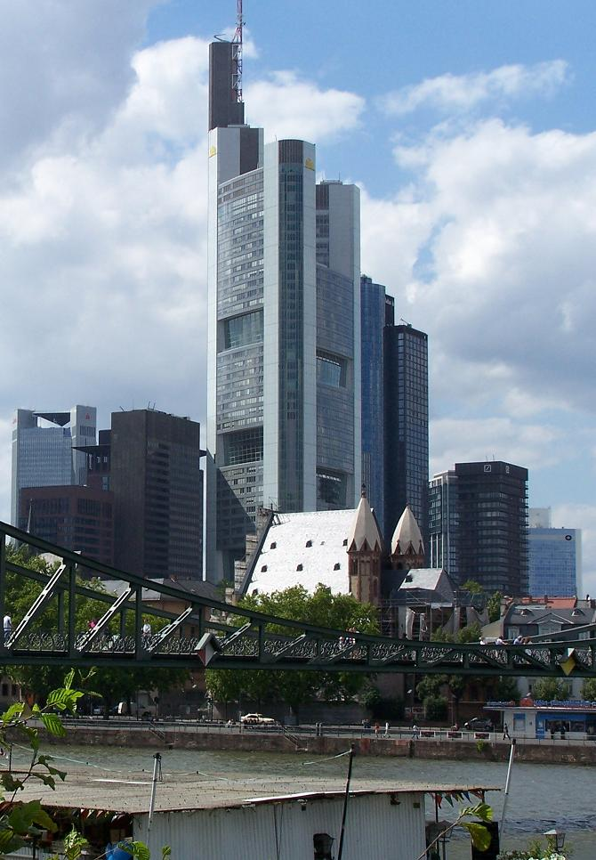 Commerzbank Tower